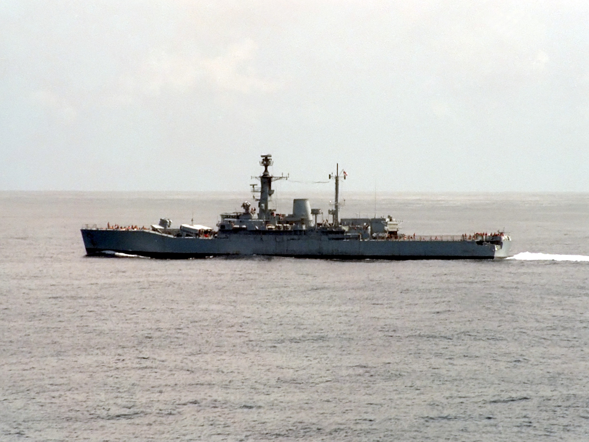 The British Leander-class frigate HMS Jupiter (F60) underway on 26 September 1985. Note the absence of any pennant number. The photo is part of a series together with the U.S. Navy aircraft carrier USS Kitty Hawk (CV-63) and the destroyer HMS Exeter (D89). Jupiter and Exeter were deployed to the Armilla Patrol in the Persian Gulf from June to November 1985.